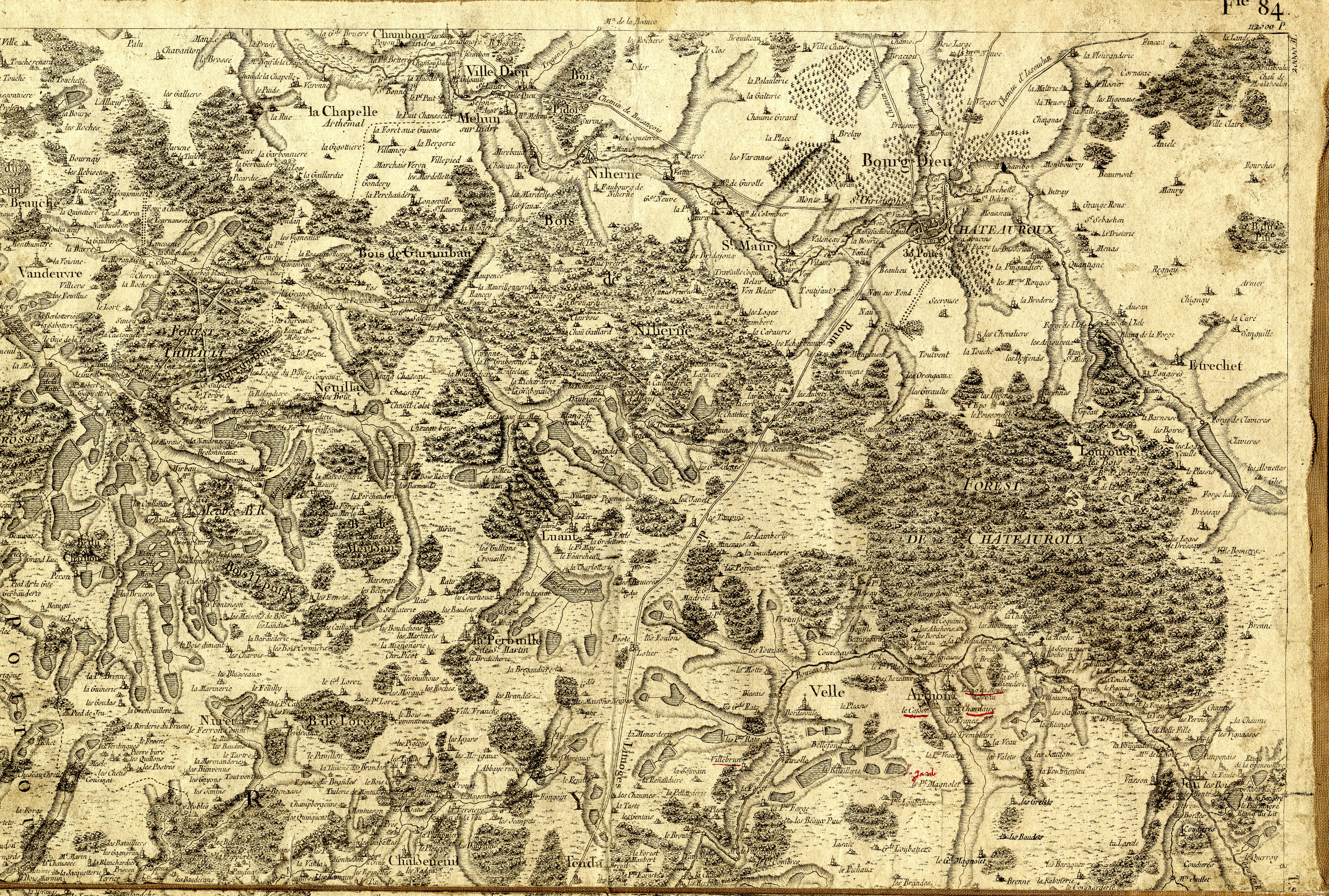 this is a map of cassini